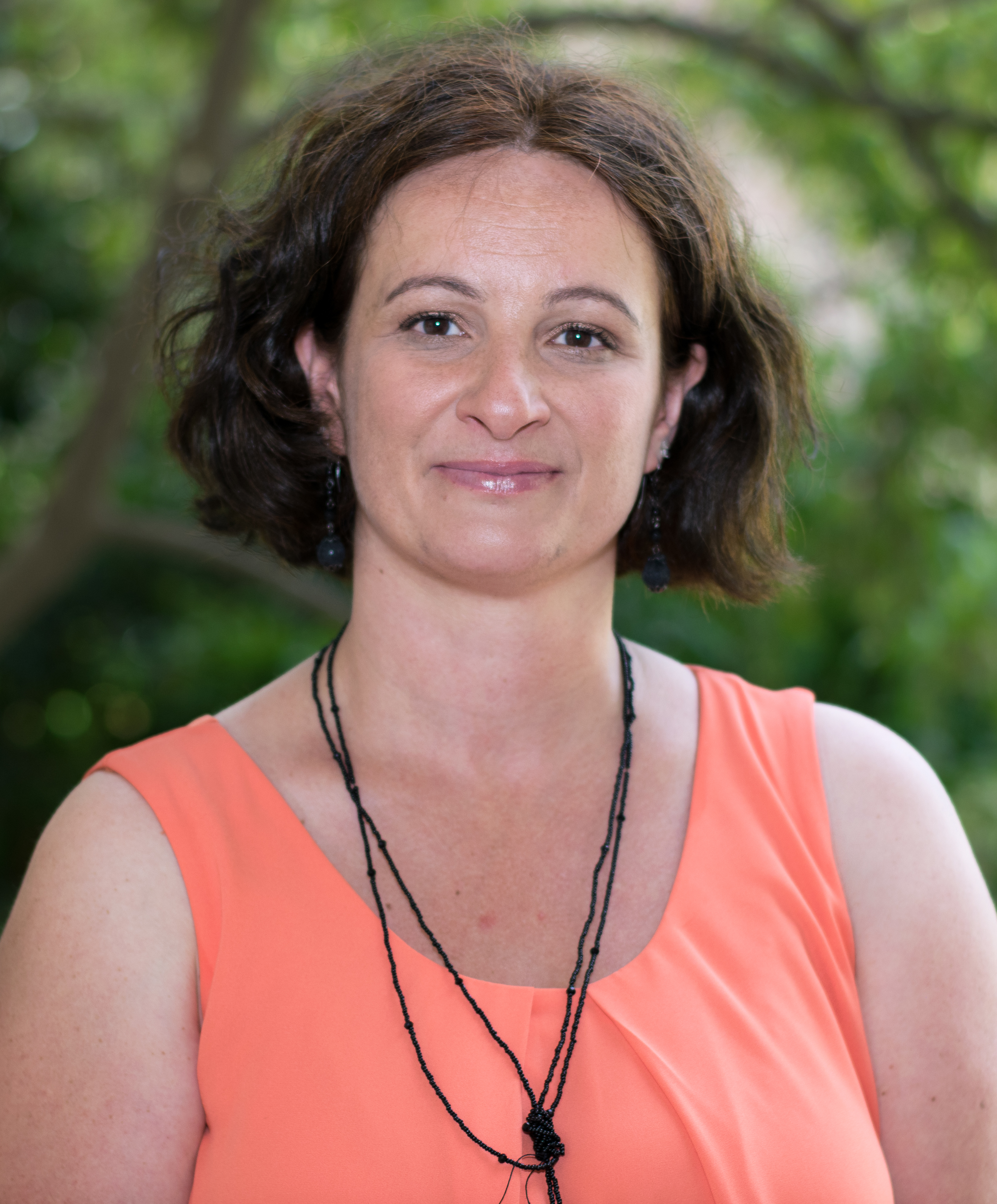 Jennifer de Temmerman in the garden of the Quatres Colonnes in the Palais Bourbon (Paris, France).